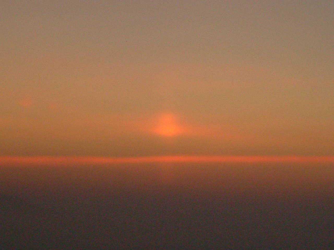 Sun pillar as seen when the sun is still behind the horizon . Even more rare is the lake-reflection effect which is shown on this occasion (not real also because there is no water in between). The photo was taken at 44°18'54.33"N / 11°19'50.32"E on Oct 22 2007 between 7:17 and 7:24 AM (camera time settings were not correct). The expected time for sunrise at this location on that day was 7:34 AM, so the phenomenon anticipated at least 10 minutes the real sunrise. This is a digitally zoomed closeup of Image:False_Sunrise.jpg NOT a parhelion!